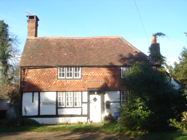 Old Inn Cottage, Langley Lane, Langley Green, Borough of Crawley, West Sussex, England: an early 17th-century timber-framed cottage with a hipped tile roof. Listed at Grade II by English Heritage (IoE code 363373)